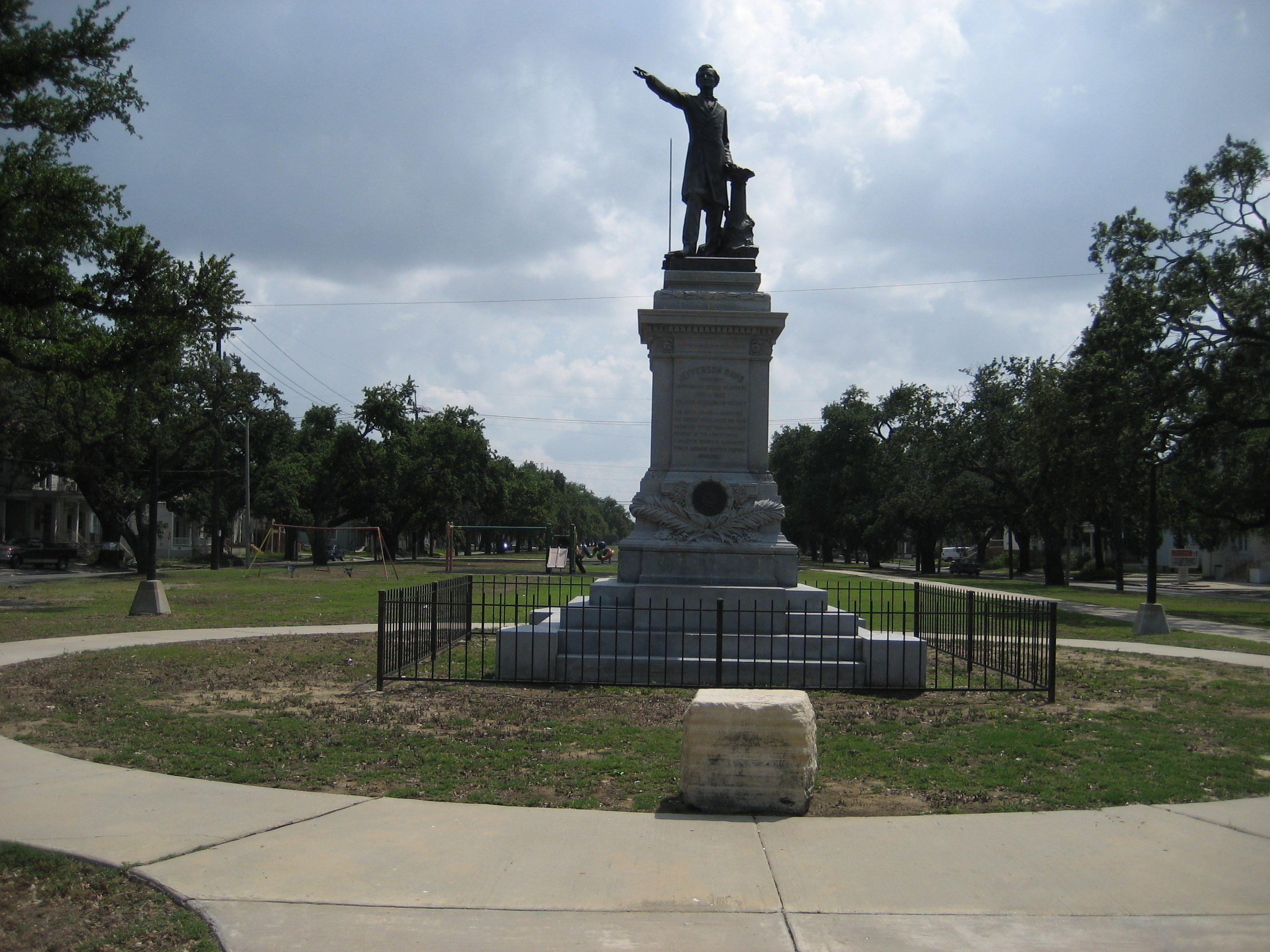 Davis Parkway, Mid City New Orleans. Jefferson Davis monument, colloquially known as the "Jeff Davis monument"